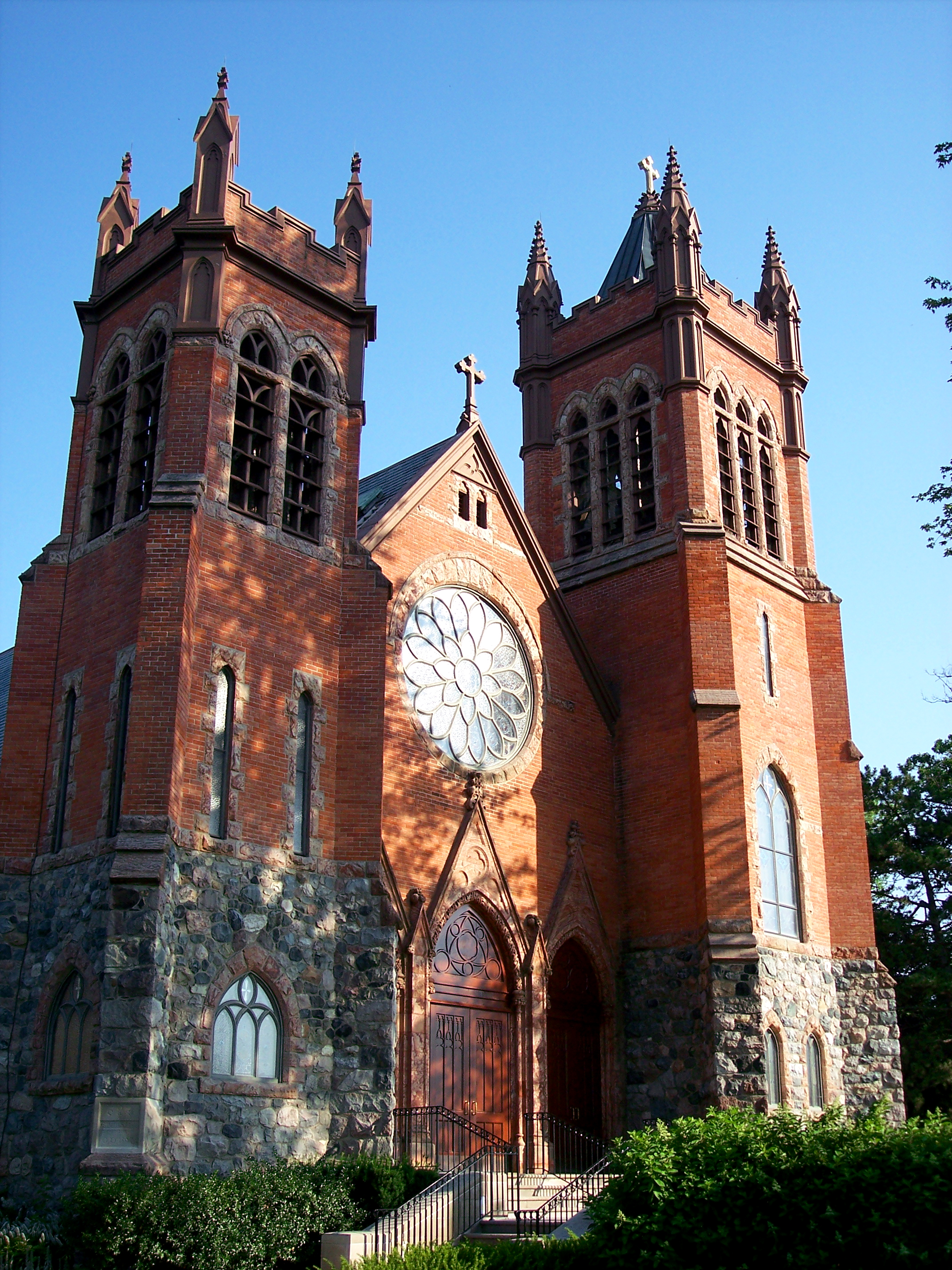 The landmark St. Paul on the Lake Catholic Church, on Lakeshore Drive in Grosse Pointe Farms, Michigan.